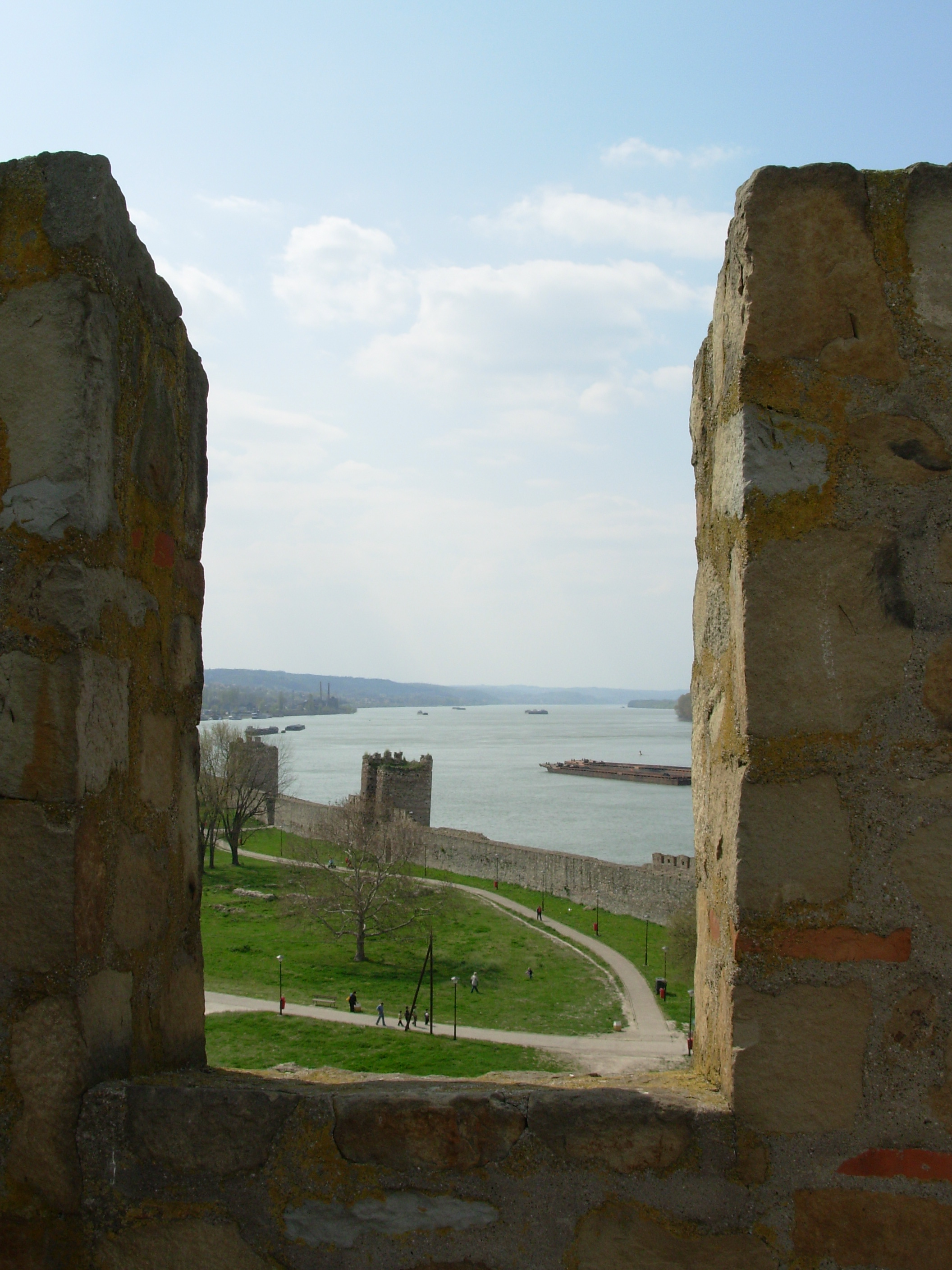 A view to the northern wall and Danube from the corner small town tower in Smederevo Fortress.